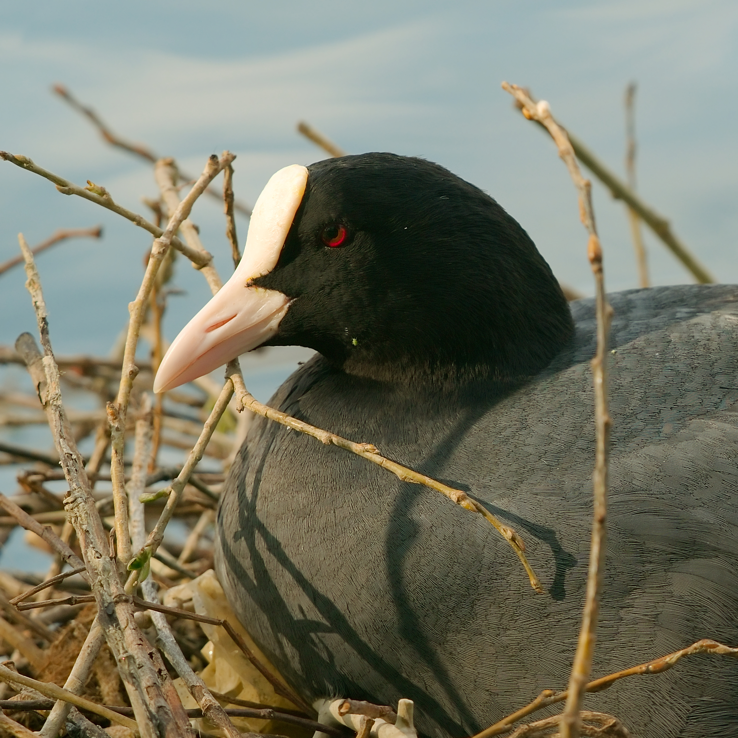 Eurasian Coot Fulica atra (in Belgium)